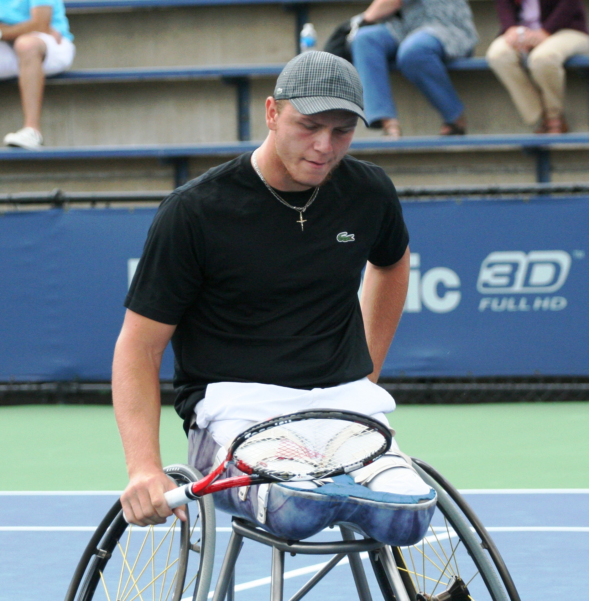 U.S. Open Wheelchair Friday, Sept. 10, 2010